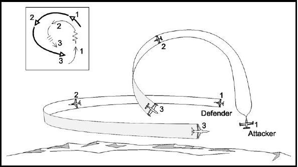 The high Yo-Yo is an out-of-plane maneuver. Source: United States Navy - Naval Air Training Command (NAS Corpus Christi, Texas) Flight training instruction manual. (Rev. 08-06 CNATRAP-821) 2006